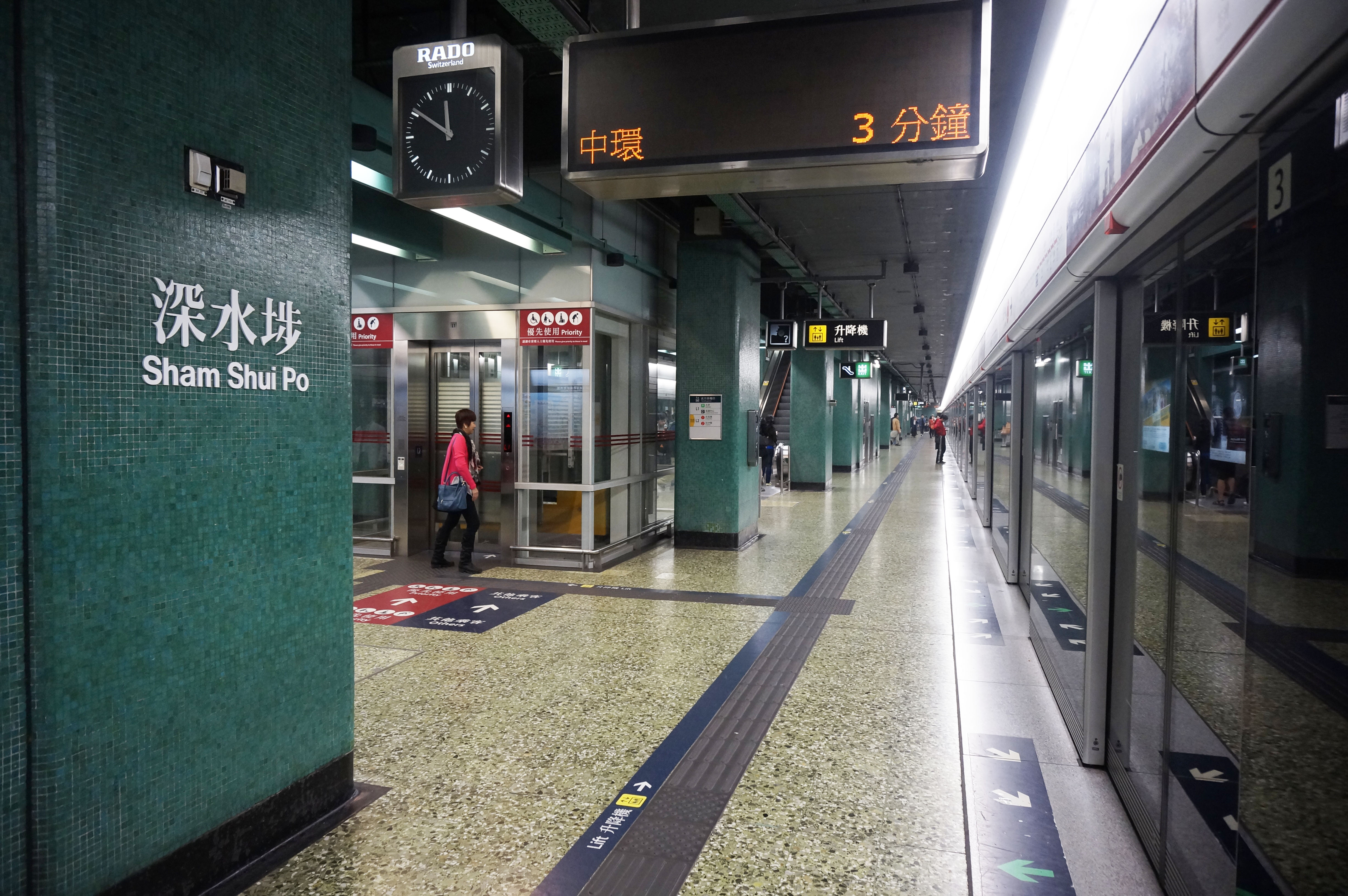 MTR Sham Shui Po Station platforms